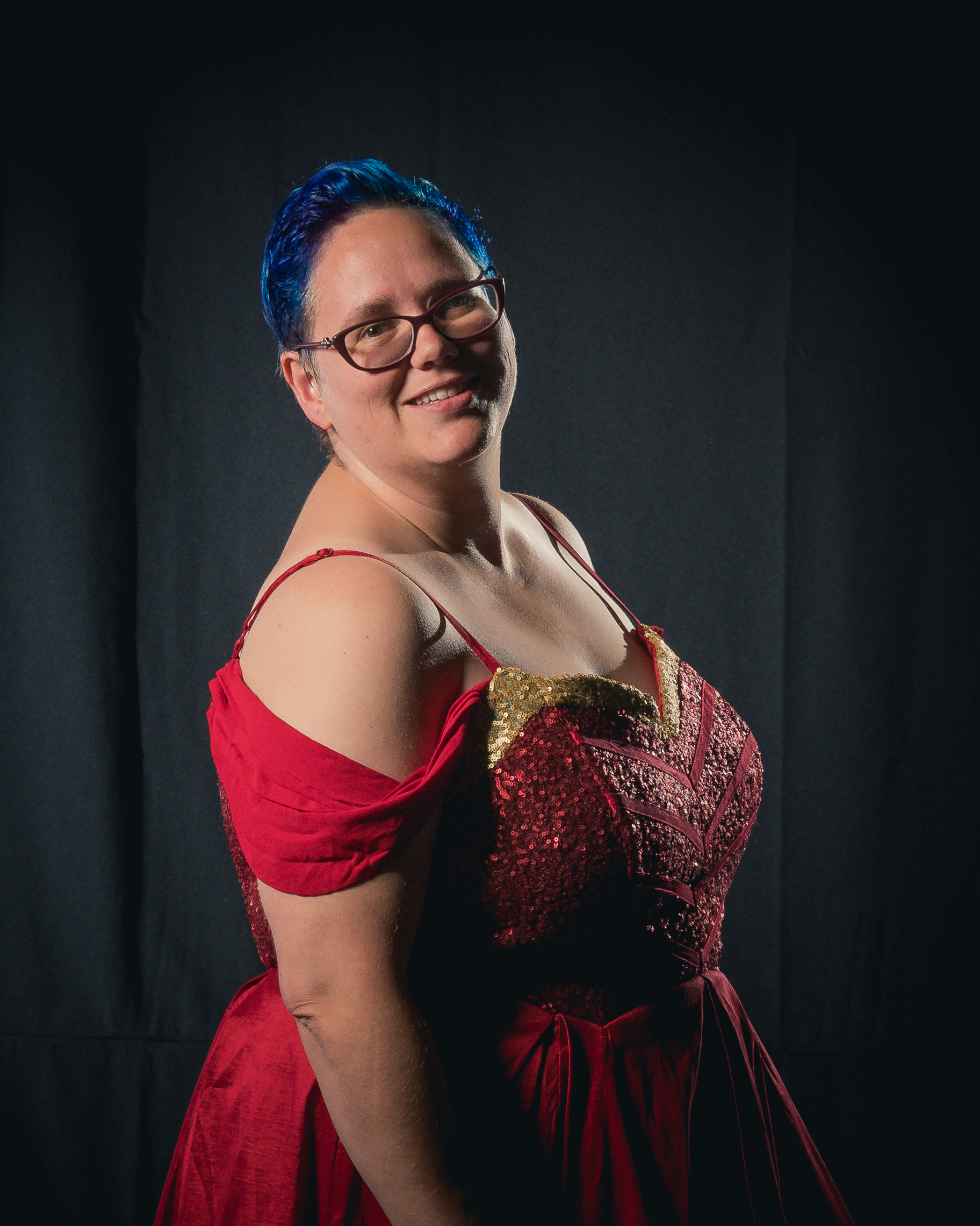 Portrait photoshoot at Worldcon 75, Helsini, before the Hugo Awards: Julia Rios.